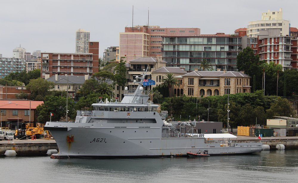 A621 D'Entrecasteaux at Fleet Base East, Woolloomooloo, during a visit to Sydney, Australia. (18 12 16)